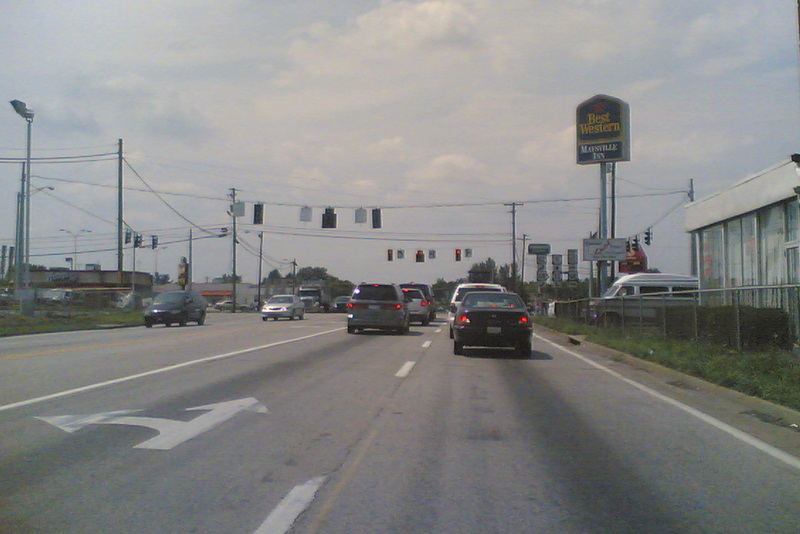 Intersection of Kentucky State Routes 9/10 & United States Routes 68/62 in Maysville, Mason County, Kentucky, United States